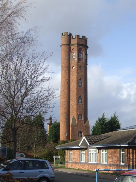 Perrott's Folly, near to Chad Valley, Birmingham, Great Britain. Thought to be the inspiration for an illustration of 'Orthanc' one of the 'Two Towers' in Tolkien's 'Lord of the Rings'. Tolkien spent his teenage years in nearby Stirling Road and Duchess Place. Perrott's Folly, or Monument, was constructed in 1758 by John Perrott as a folly or hunting lodge. It was converted to a weather observatory by Follet Osler in 1884 and was later used by the Birmingham & Midland Institute and Birmingham University until 1979. The other tower is at Edgbaston Waterworks and is thought to be Minas Tirith.